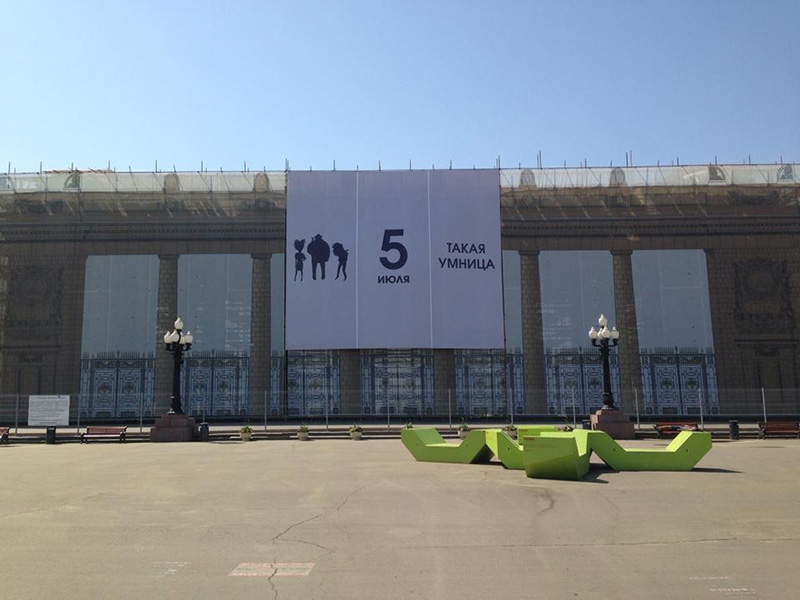 Banner at the entrance to Gorky Park